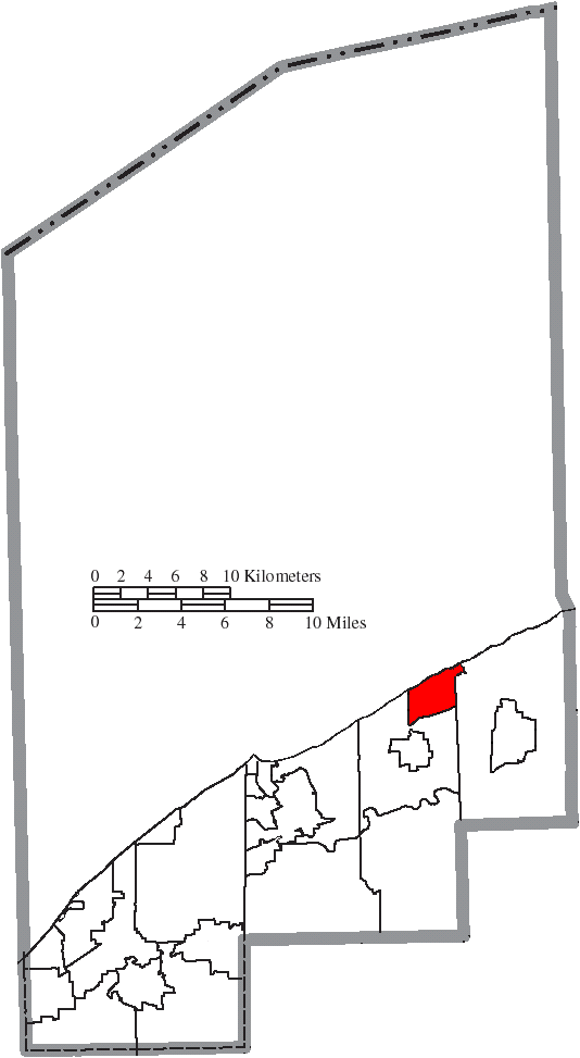 Map of the municipal and township boundaries of Lake County, Ohio, United States, as of the 2000 census, with the location of the village of North Perry highlighted. Township borders are shown only in unincorporated areas in order to differentiate incorporated and unincorporated areas more clearly.